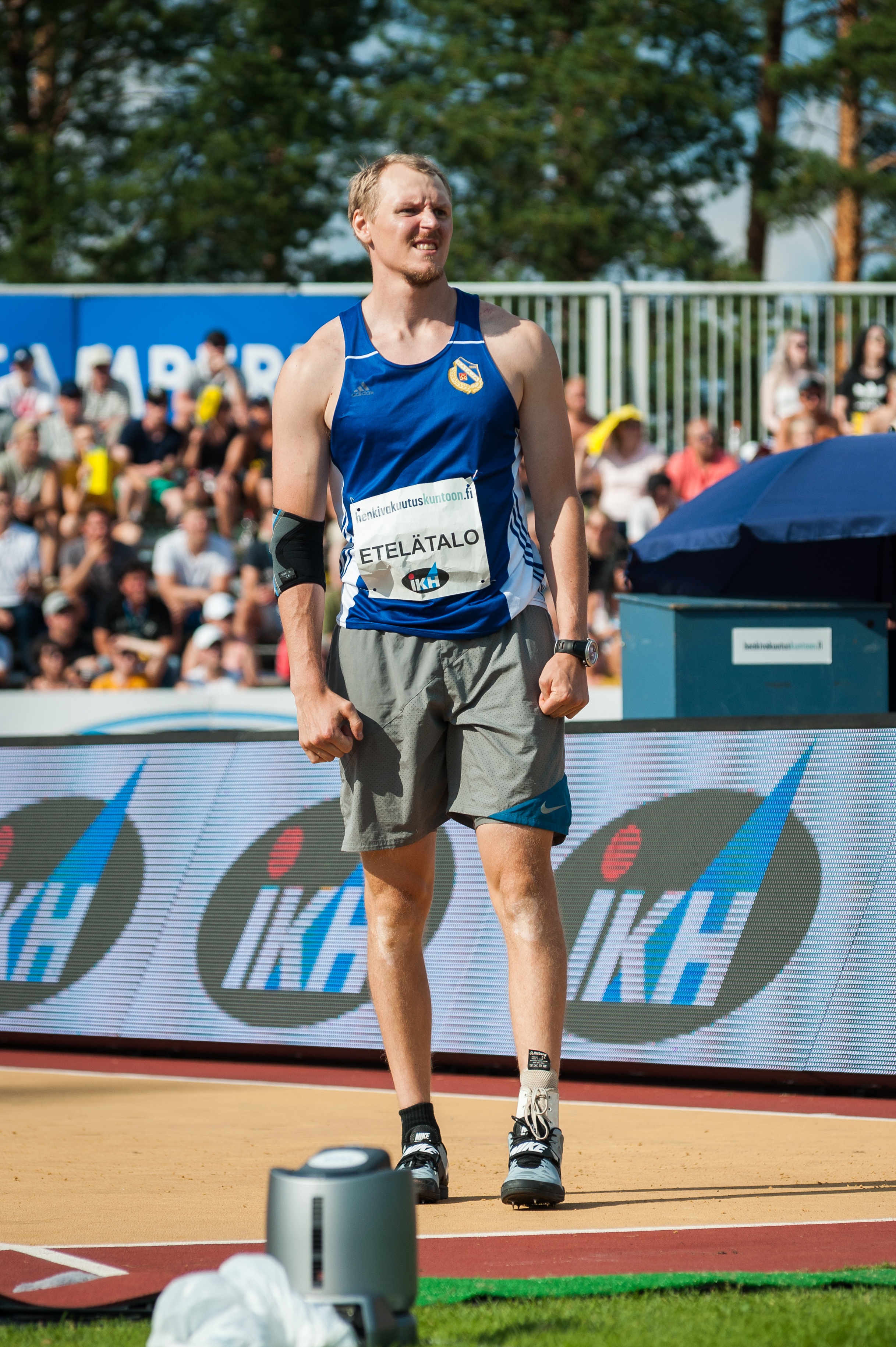 Men's javelin throw competition at the 2018 Kalevan Kisat, the Finnish championships in athletics, in Jyväskylä, Finland.